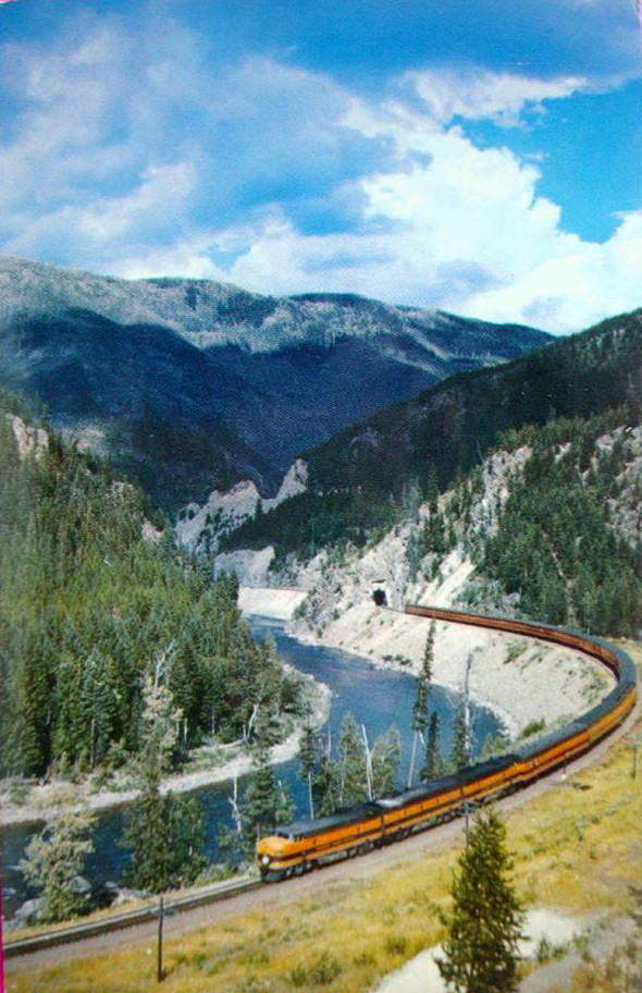 Postcard photo of the Great Northern train, the Western Star. This was a companion train to the Empire Builder; the Western Star made more stops and didn't travel between the Pacific Northwest and Chicago as quickly as the Empire Builder.